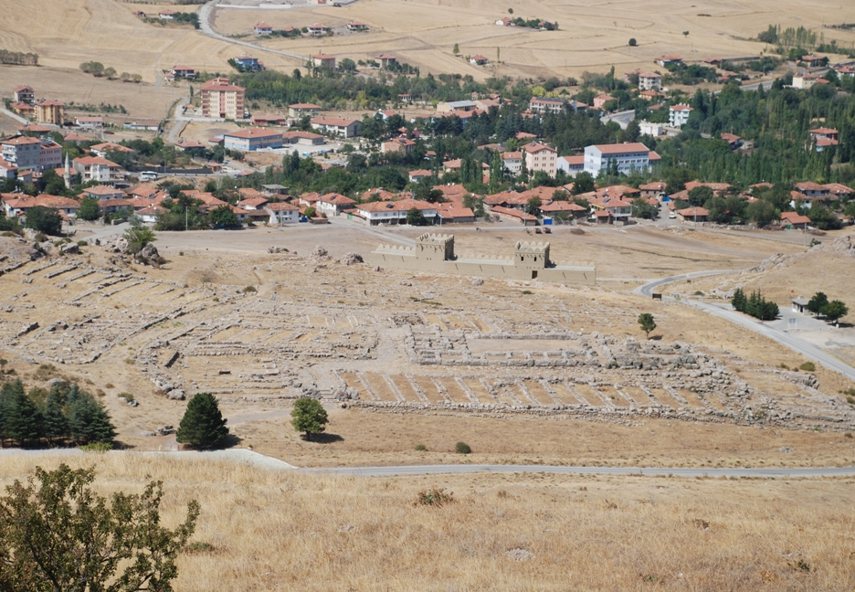 Great Tempel in Hattusa